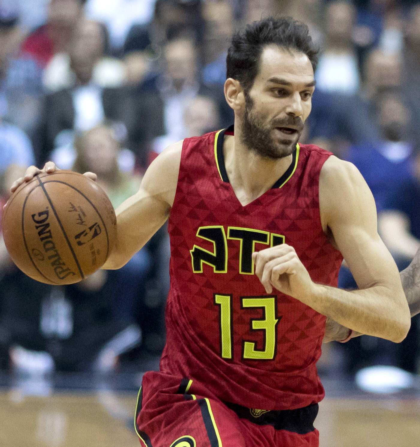 Hawks at Wizards 4/26/17